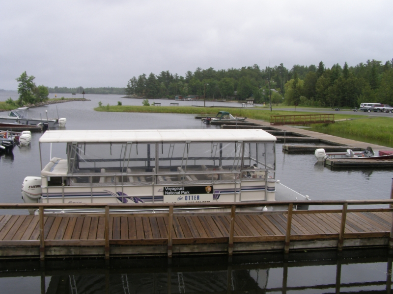 Tour Boat at Kabetogama Visitor center, Voyageur Nat'l Park